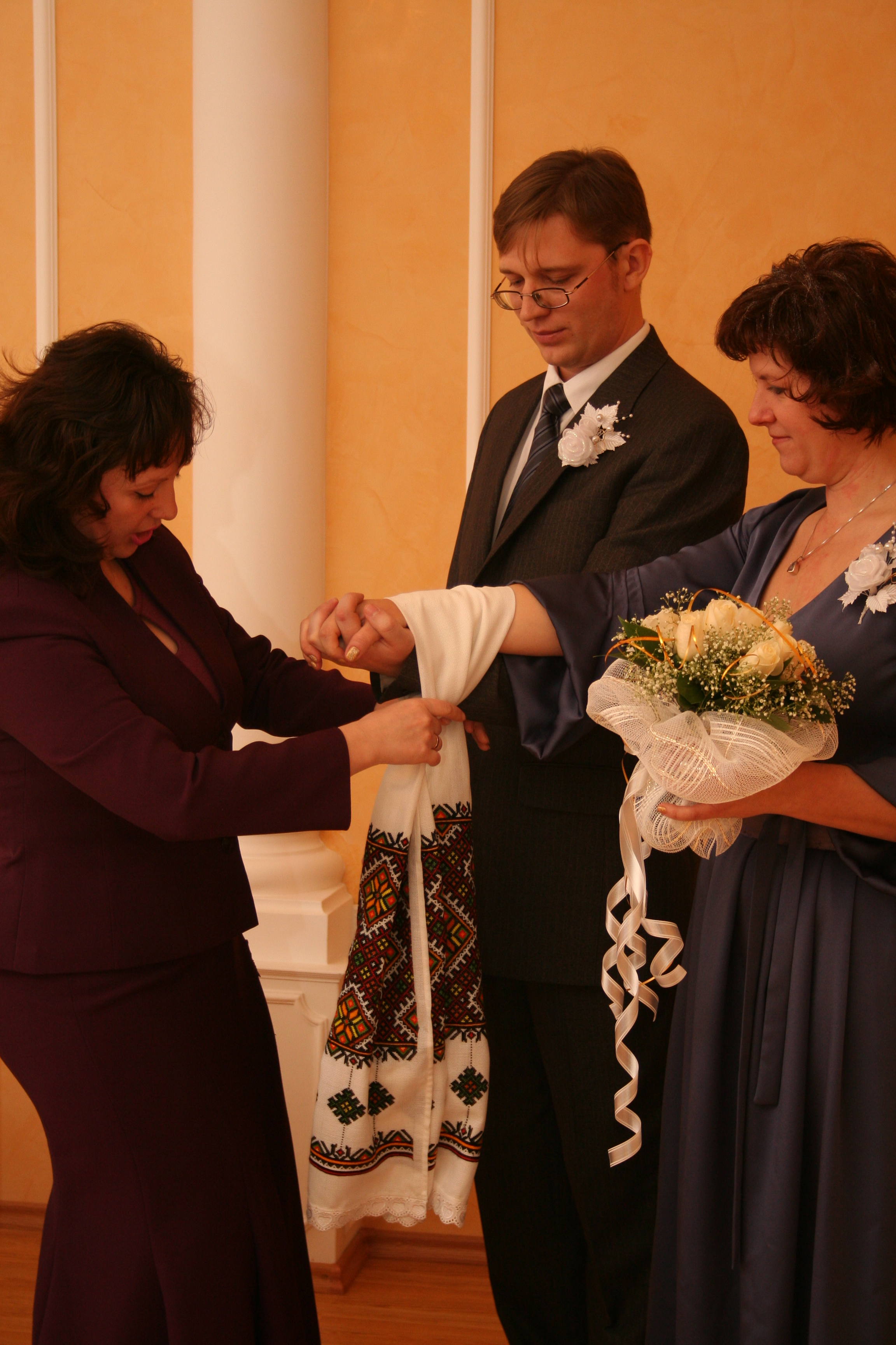 Handfasting during a civil ceremony in Ukraine. The cloth is a ceremonial rushnyk decorated with traditional Ukrainian embroidery. Hand Fasting at a civil ceremony.